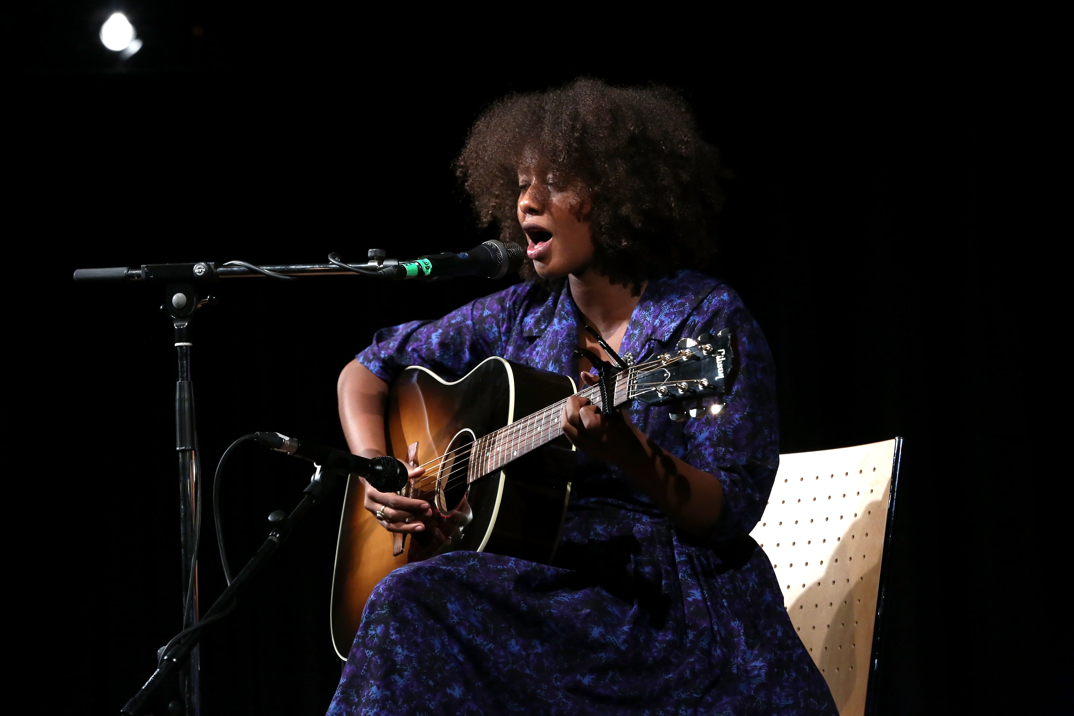 Mirel Wagner, concert at Haus der Musik during Waves Vienna Music Festival & Conference 2014 in Vienna, Austria.